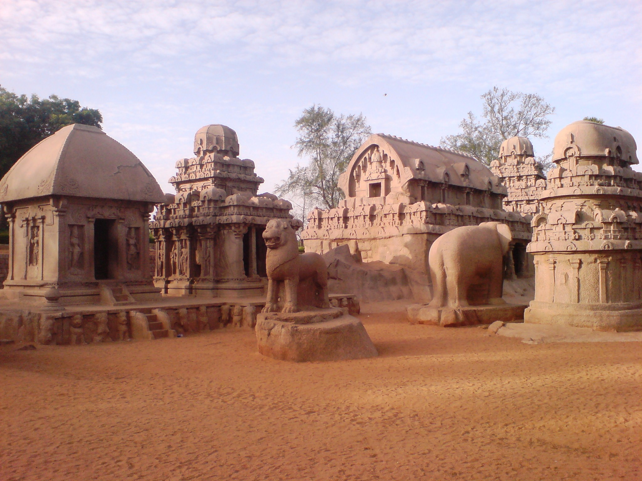 Five Rath